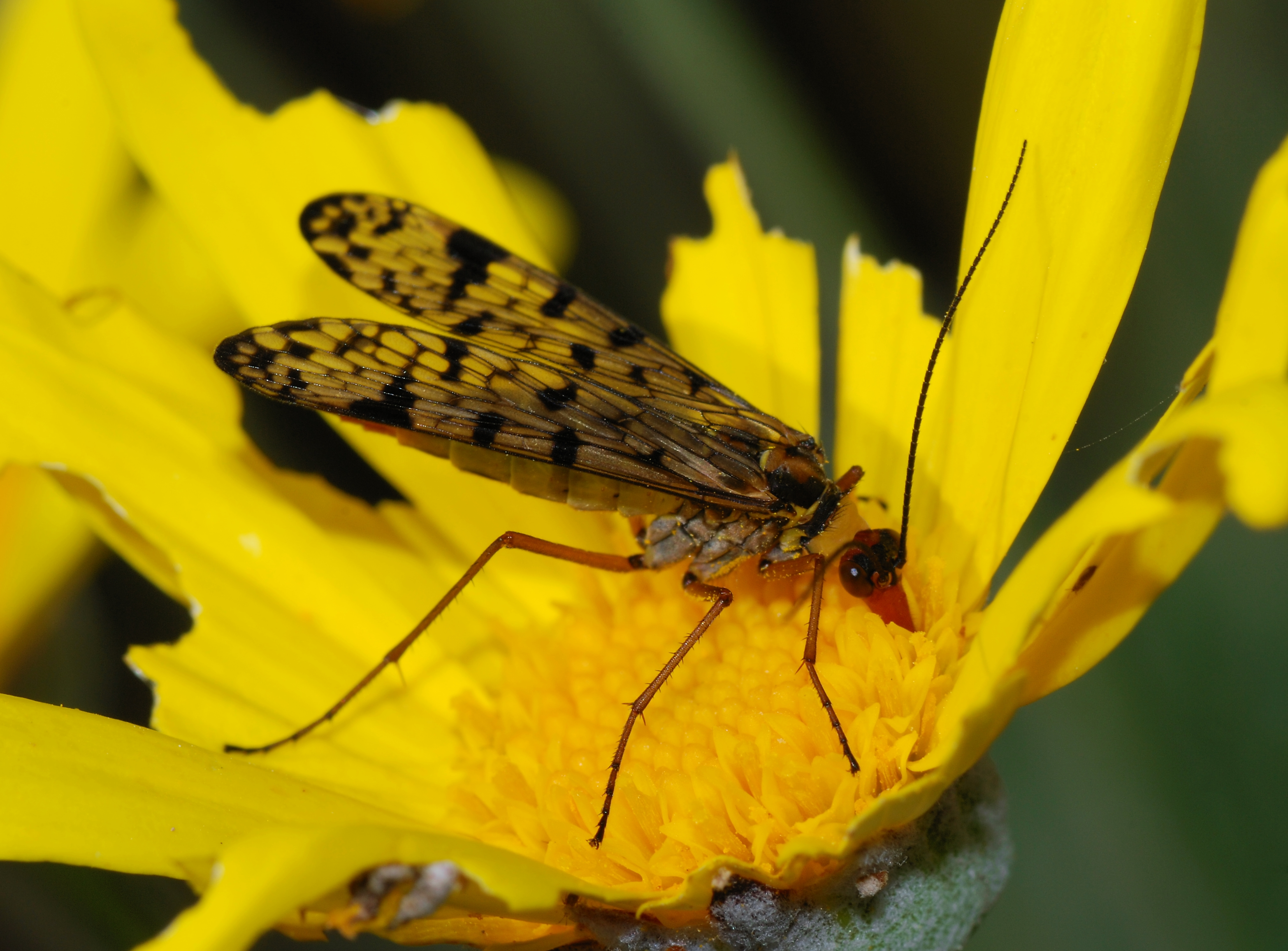 A female scorpionfly (Panorpa meridionalis)